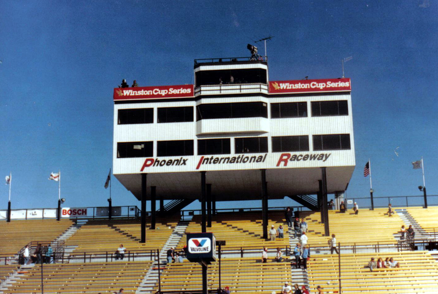 The pressbox at the NASCAR track (aka circuit) in 1989